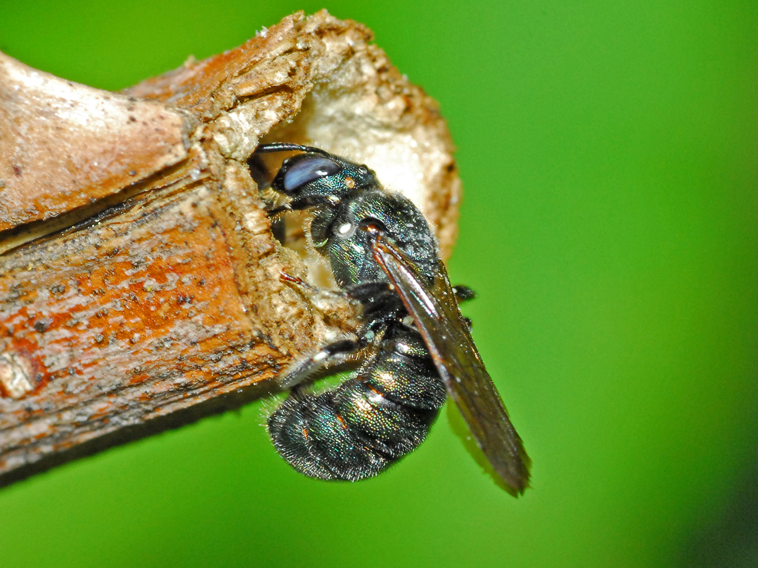 Female of Ceratina cyanea digging the nest